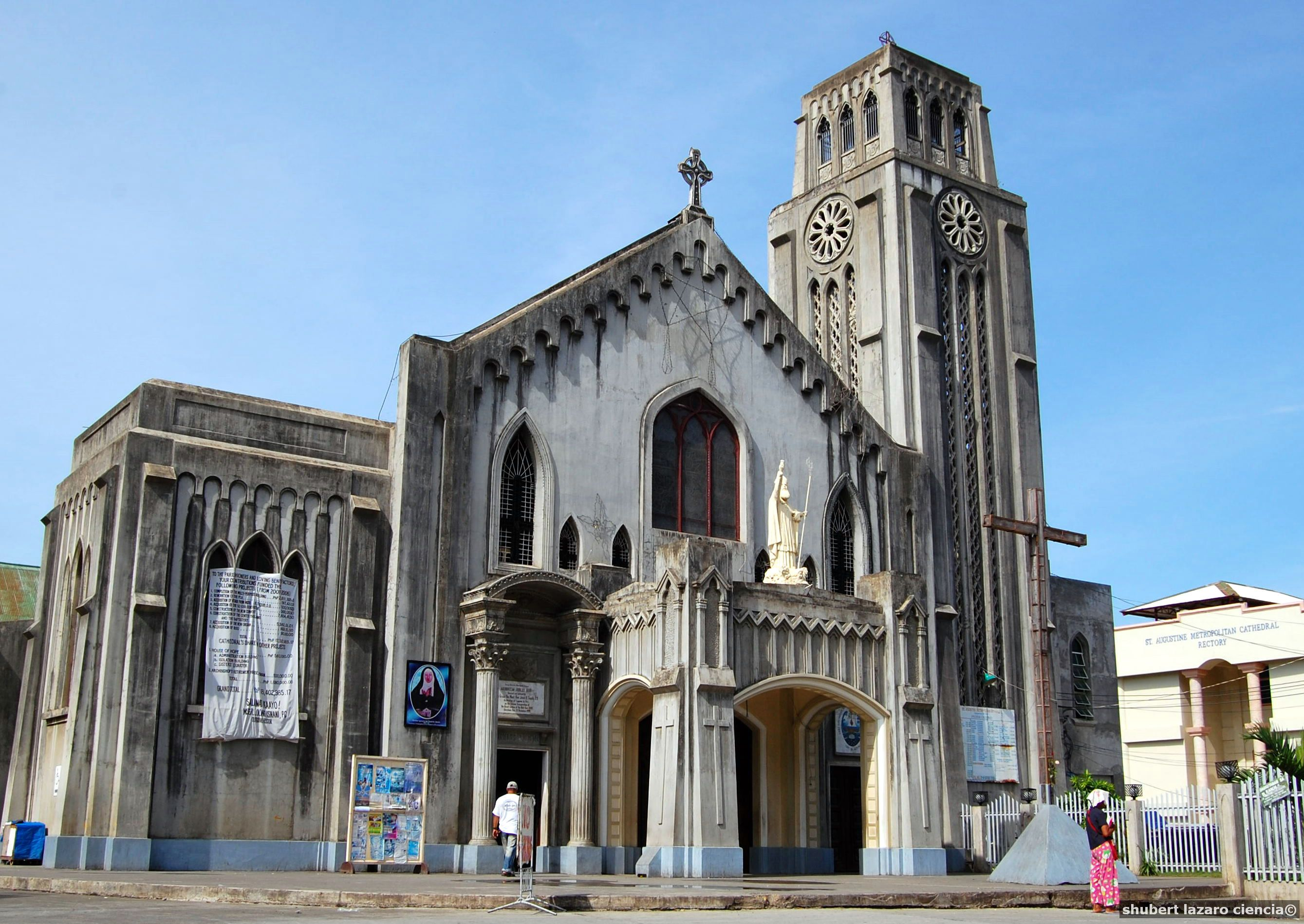 The Augustinian Recollects first evangelized in what is now Cagayan de Oro City in 1622. The establishment of the first settlement is attributed to Fr. Agustin de San Pedro in 1626. Cagayan de Misamis became the capital town of Segundo Distrito de Misamis in 1872. It became a city in 1950 when its name was changed into Cagayan de Oro and its San Agustin Cathedral was rebuilt. There are currently no information about the earlier parochial structures. related reading at Nikon D40 (Oxfam-GB Learning Workshop, August 2007).